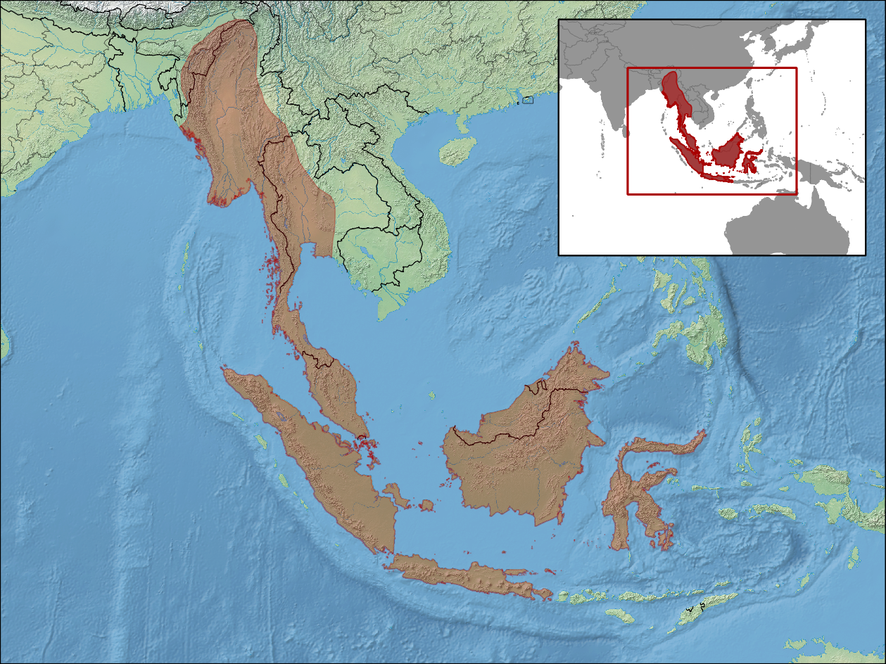 geographic distribution of Eutropis novemcarinata